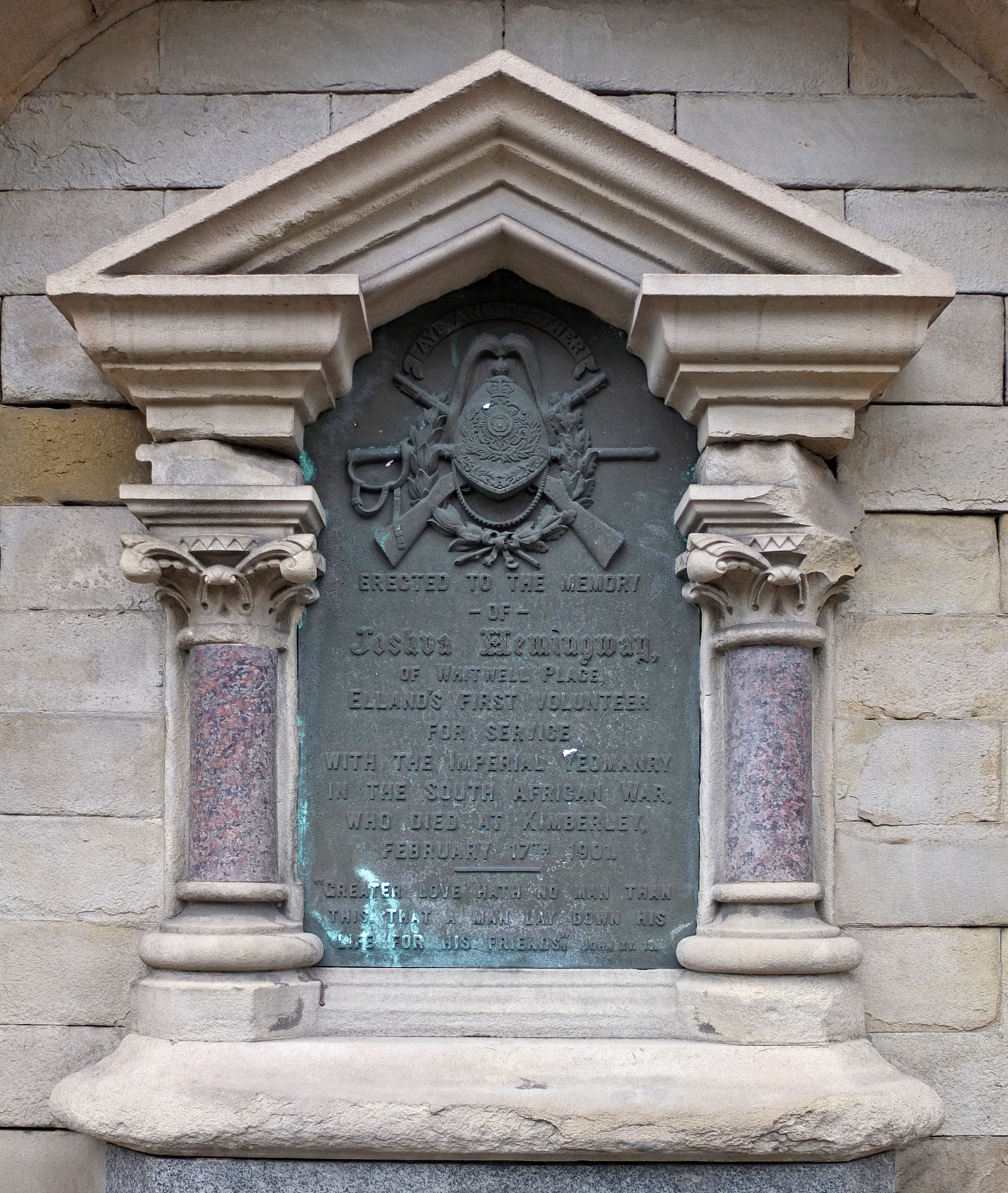 Memorial to Joshua Hemingway